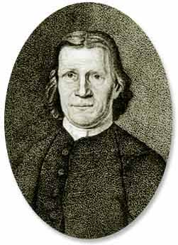 Vintage painting of David Zeisberger.